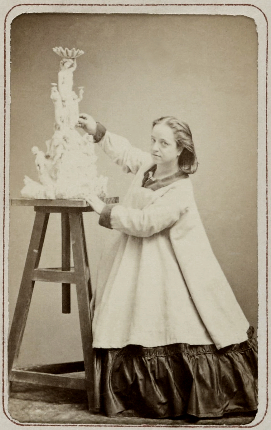 Hélène Bertaux (1825-1909), french sculptor and "women's lib" activist.